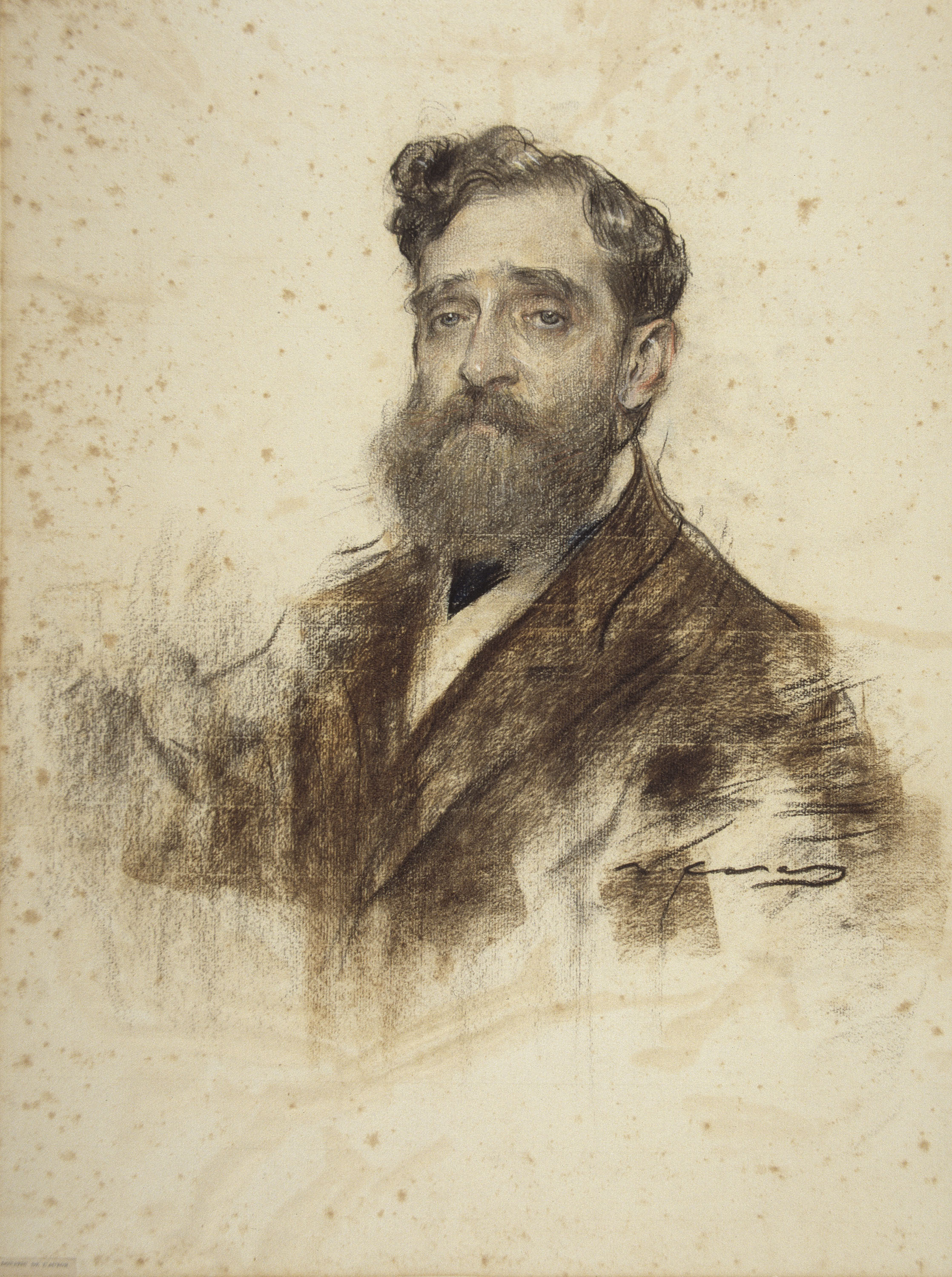 Portrait by Ramon Casas conserved at MNAC in Barcelona. Imagen 087